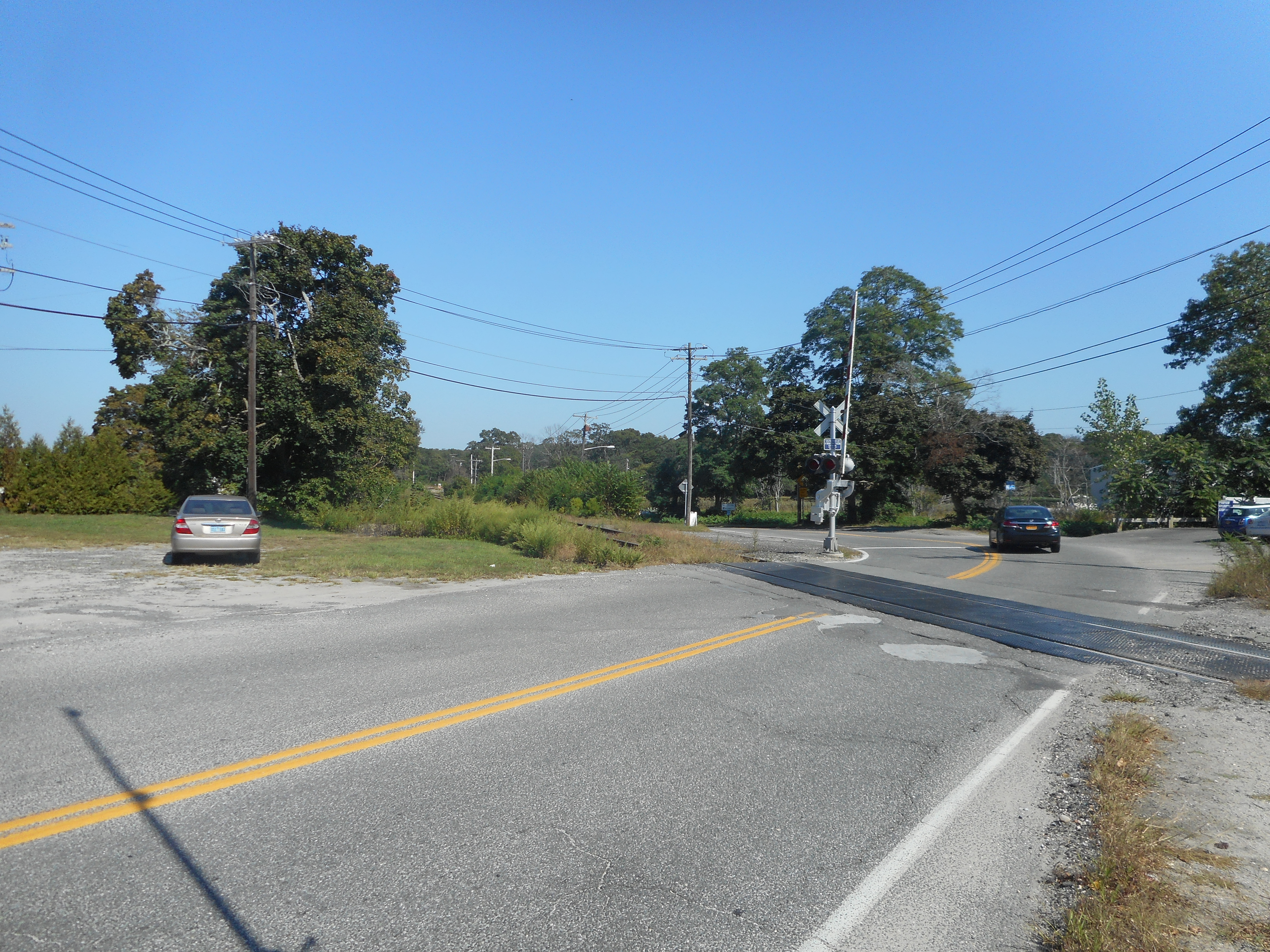 Site of the former Aquebogue LIRR station, in Aquebogue, New York, at the Meeting House Creek Road railroad crossing just east of the intersection with Hubbard Avenue and Edgar Avenue. Meeting House Creek Road briefly runs along the south side of the Main Line of the Long Island Rail Road after this crossing, and the station house itself was across the tracks between the tracks and the road.